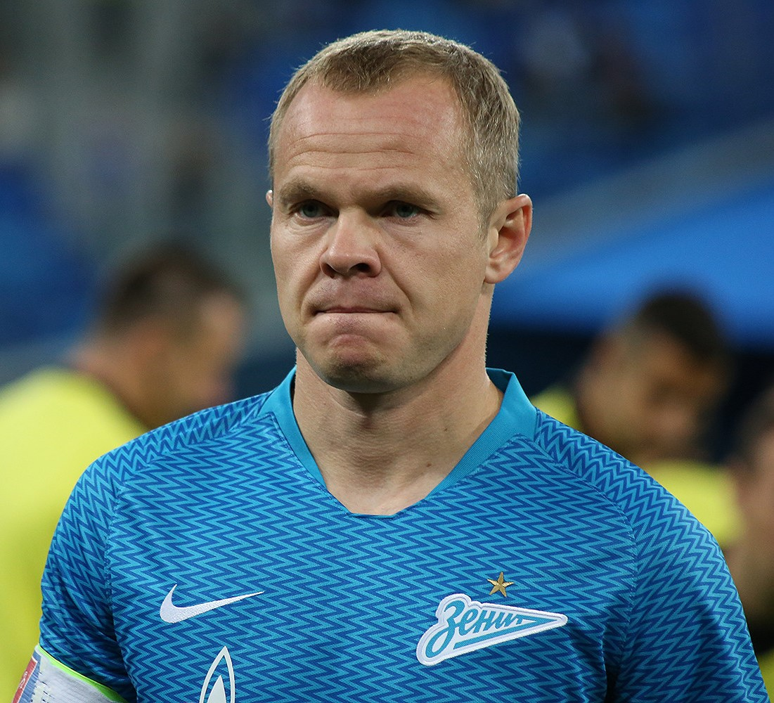 Alexandr Anyukov